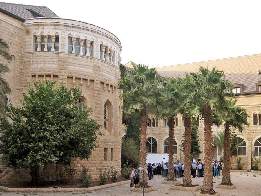 Augusta Victoria's courtyard in Jerusalem, outside façade of the apsis of Lutheran Ascension Church.